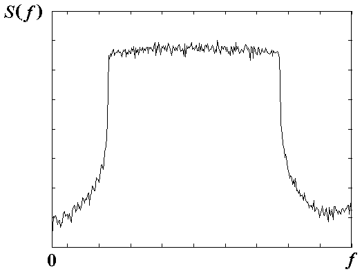 OFDM Pulse spectrum